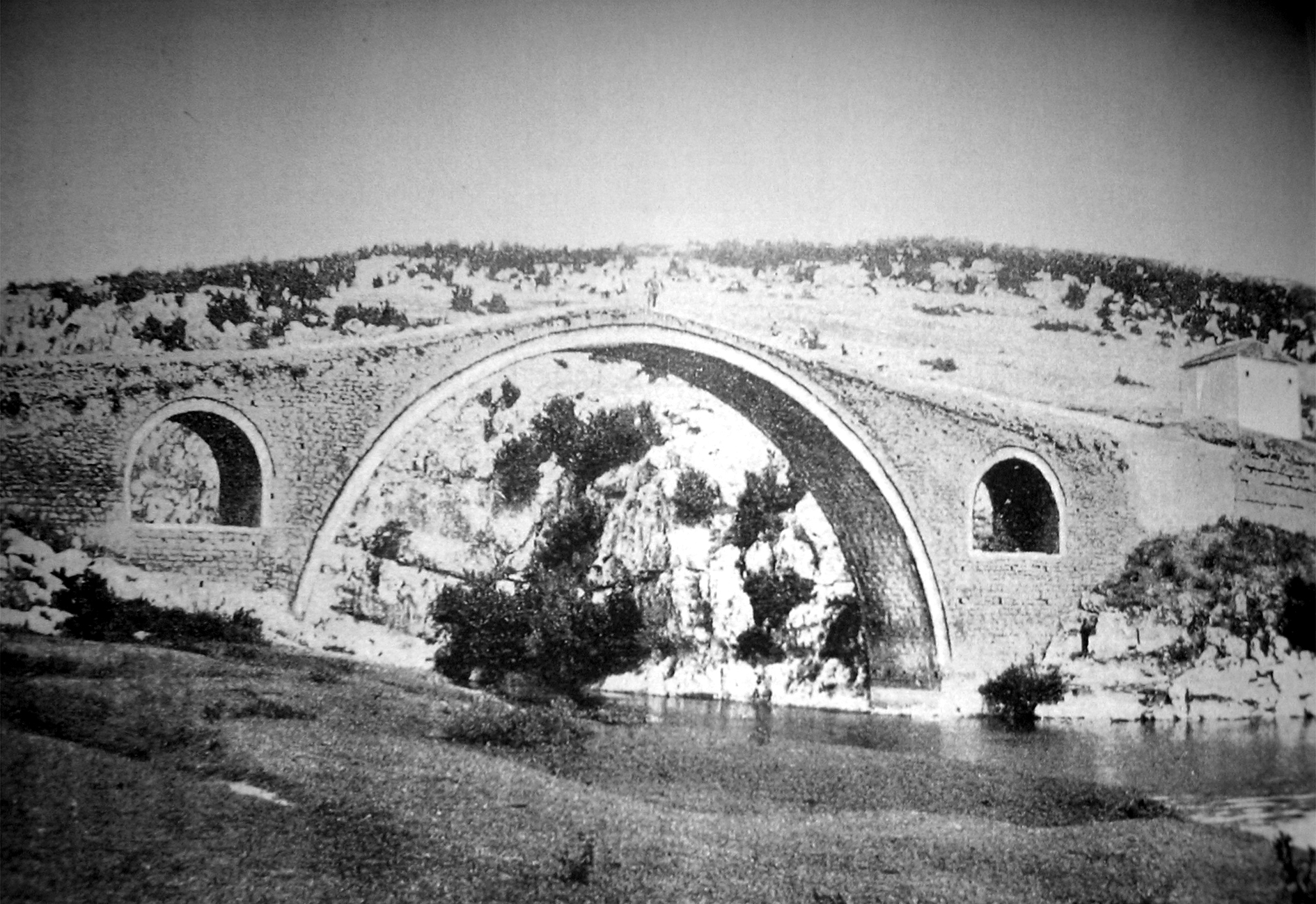 An old picture of the 'Fshejt' Bridge taken in Gjakova, in direction toward Prizren. I've got the right of publishing in Wikipedia from the director of the Institute for Cultural Monuments Protection